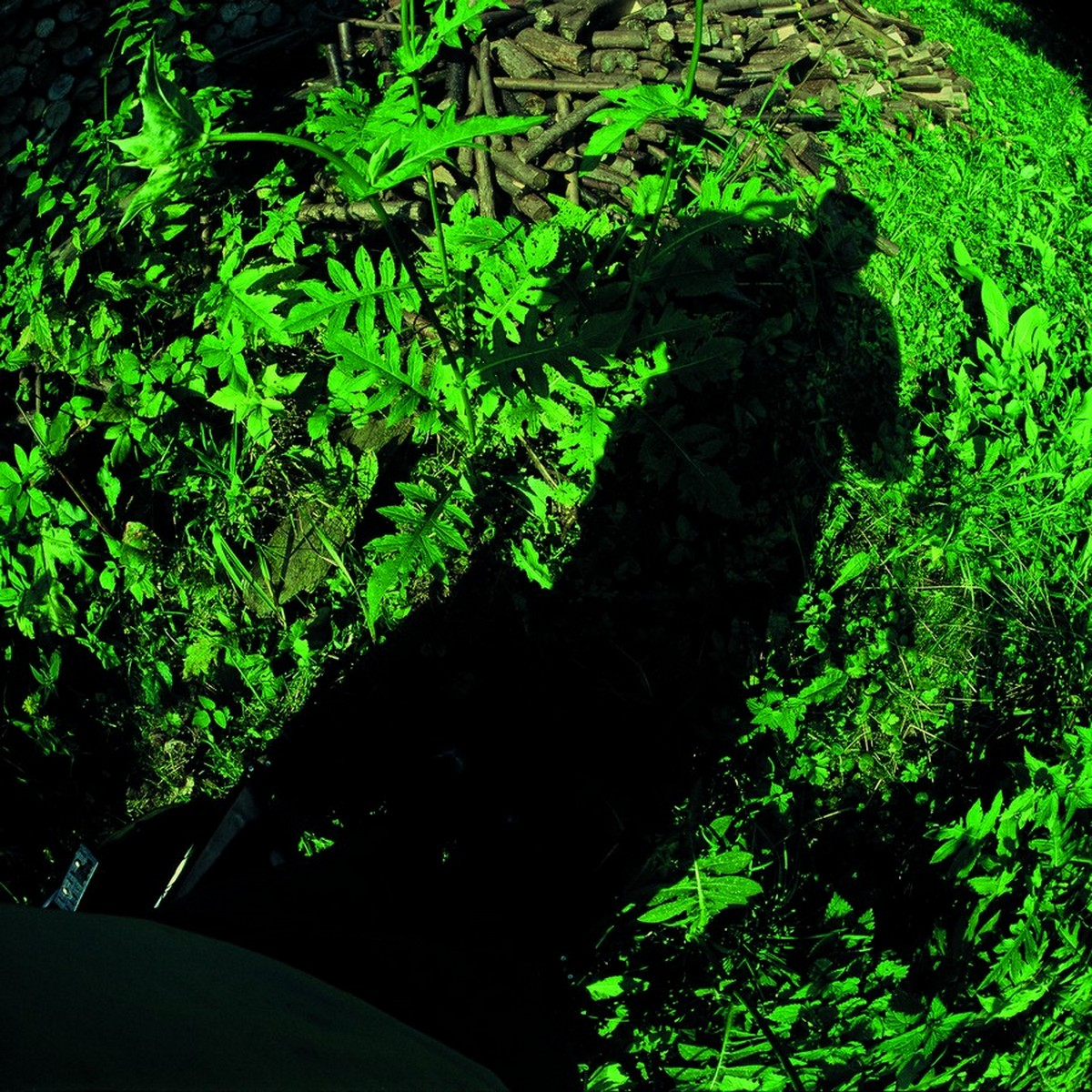 Now! Artists of Foto-Medium Art Gallery